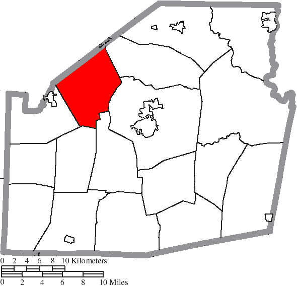 Map of the municipal and township boundaries of Highland County, Ohio, United States, as of the 2000 census, with the location of Union Township highlighted. Township borders are shown only in unincorporated areas in order to differentiate incorporated and unincorporated areas more clearly.